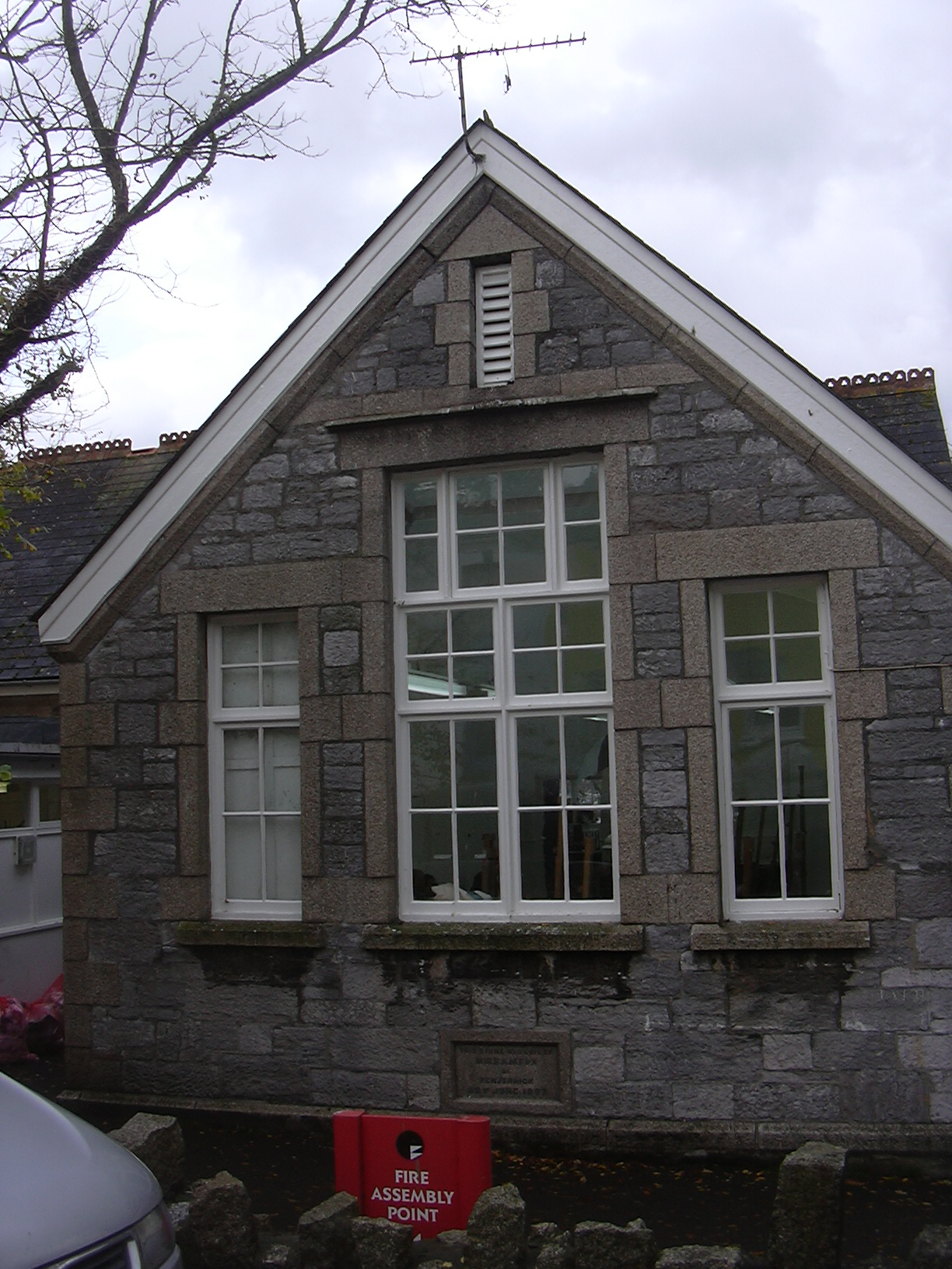 Former school in Wellington Terrace, Falmouth, UK, now the property of Falmouth Art College.